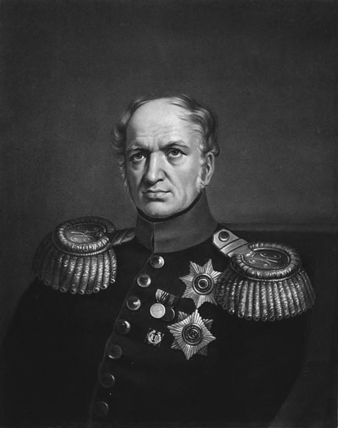 Count Kankrin, Yegor Frantsevich (16 November 1774 - 10 September 1845) was German-Russian politician and economist. Это изображение было использовано для иллюстрирования статьи «Канкрин, Егор Францевич, граф» опубликованной в двенадцатом томе «Военной энциклопедии», который был издан книгоиздательским товариществом И. Д. Сытина в 1913 году в столице Российской империи городе Санкт-Петербурге. Более подробное описание к этой картинке можно прочесть в указанной выше статье.